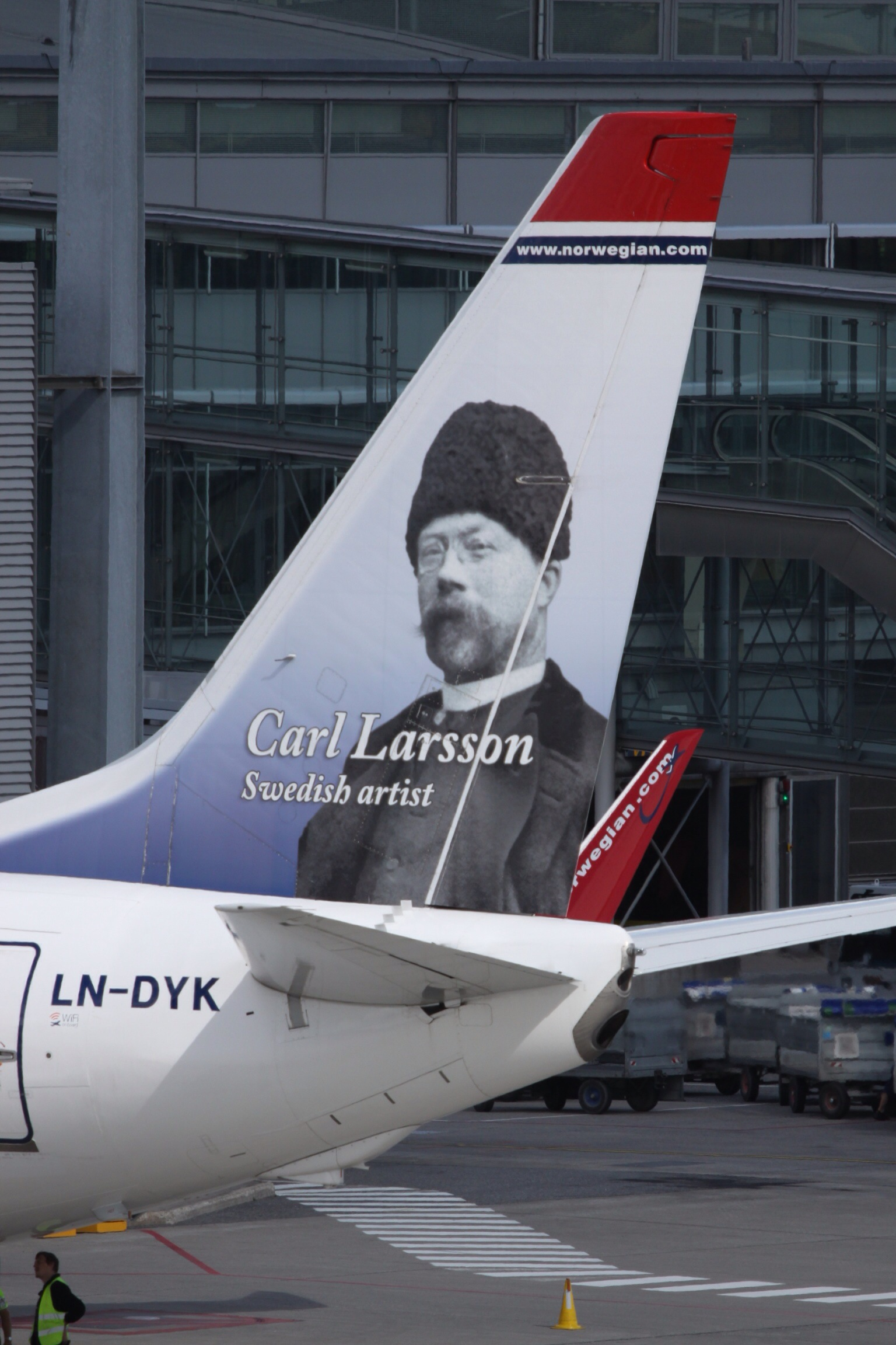 At Oslo Gardermoen